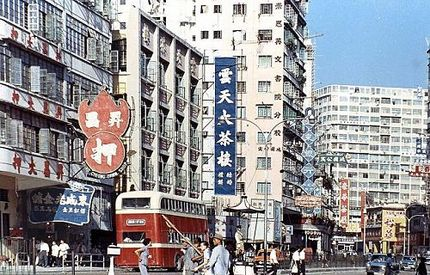 Shang_Hai_Street_in_1960s